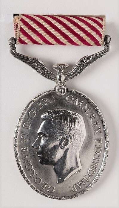 British Merit Medal: Distinguished Flying Medal awarded to Flying Officer Onslow Thompson RNZAF, April 1942. Obverse.